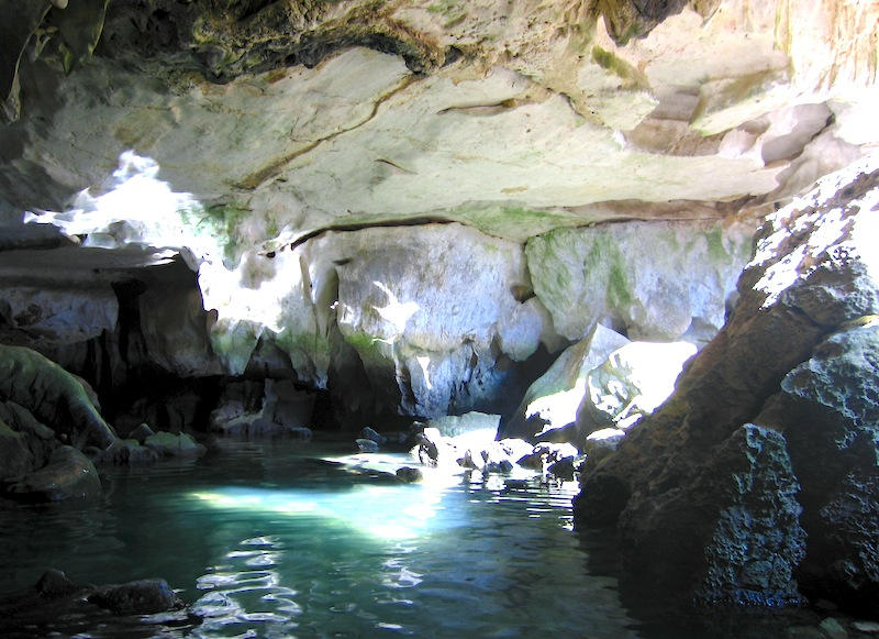 The amazing swimming cave in Kompong Trach